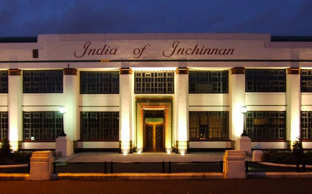 India of Inchinnan Fine Art Deco office building, purpose built by India Tyres in 1931. Lay derelict for several years after the factory closed, but was restored and converted to individual office spaces, reopening in 2003. The factory was located to the rear of this building and was demolished in 1982.